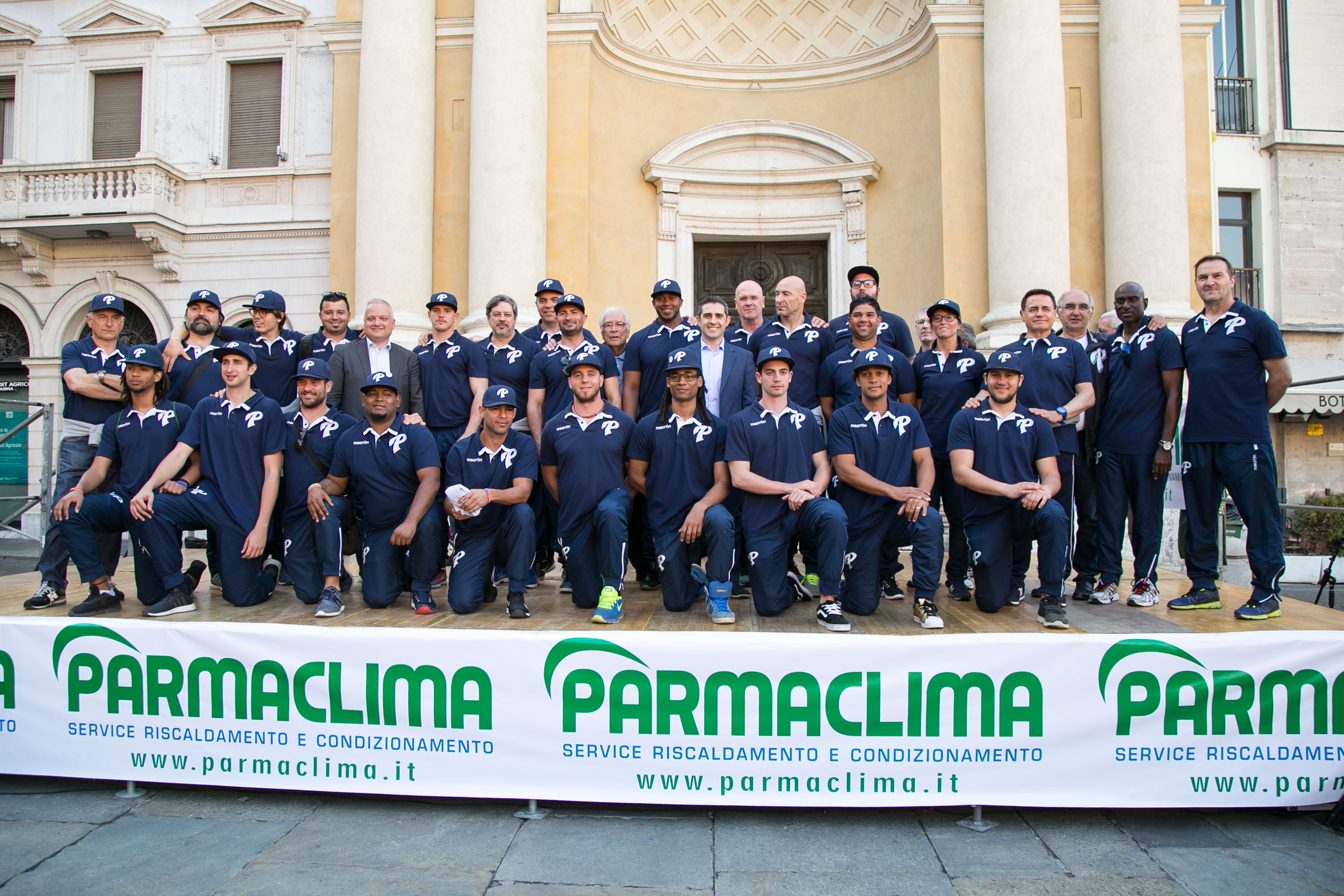 2017 Parma Clima Baseball, team presentation.